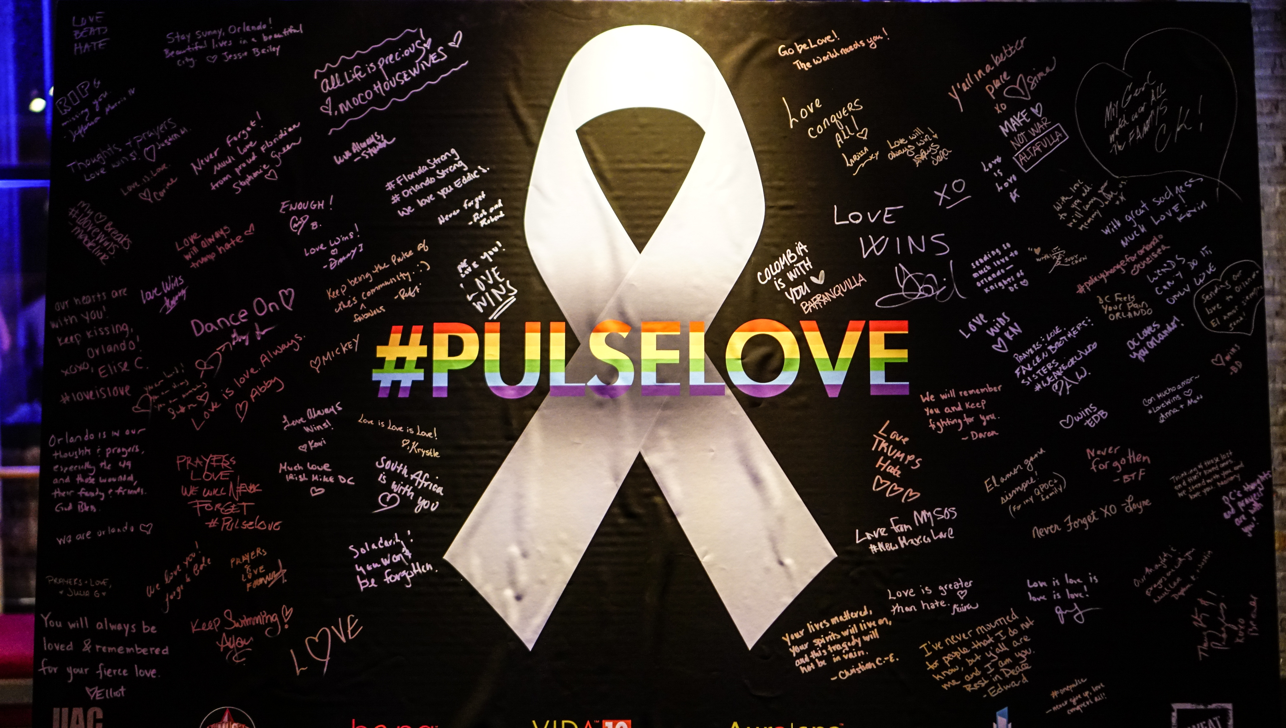 2016.06.18 More DC People and Places 06252